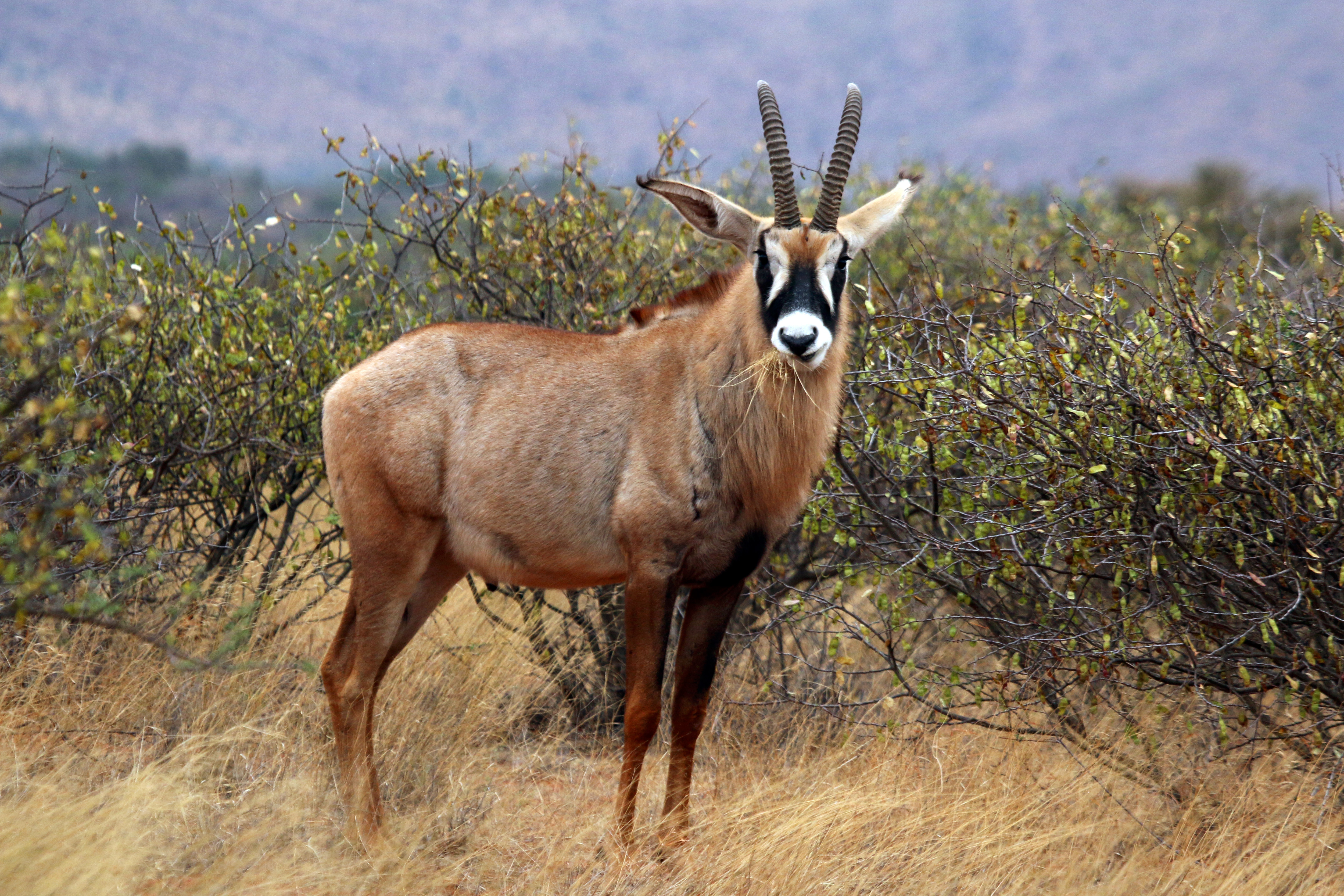 Roan antelope (Hippotragus equinus equinus) male, Tswalu Kalahari Reserve